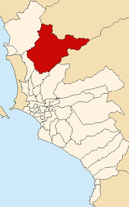 Map of Lima highlighting the Carabayllo district in northern Lima.